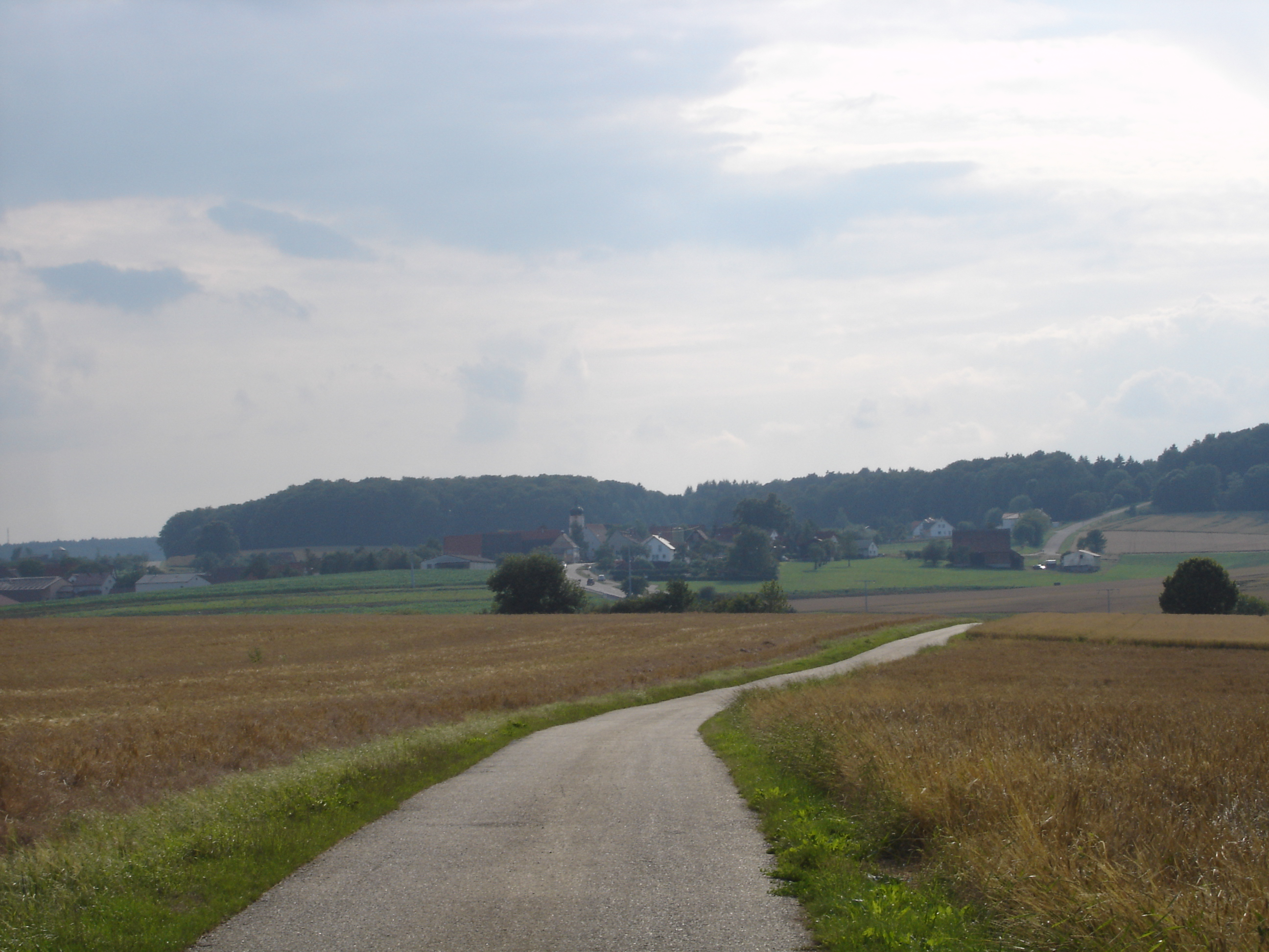 Luizhausen, an incorporated village of Lonsee